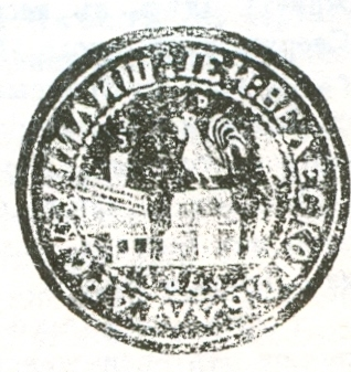 The seаl of the Bulgarian school of the town of Veles, Macedonia